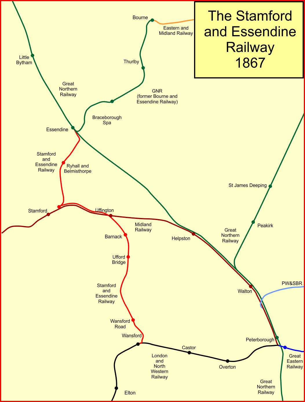 System map of the Stamford and Essendine Railway, England, on extension to Wansford in 1867